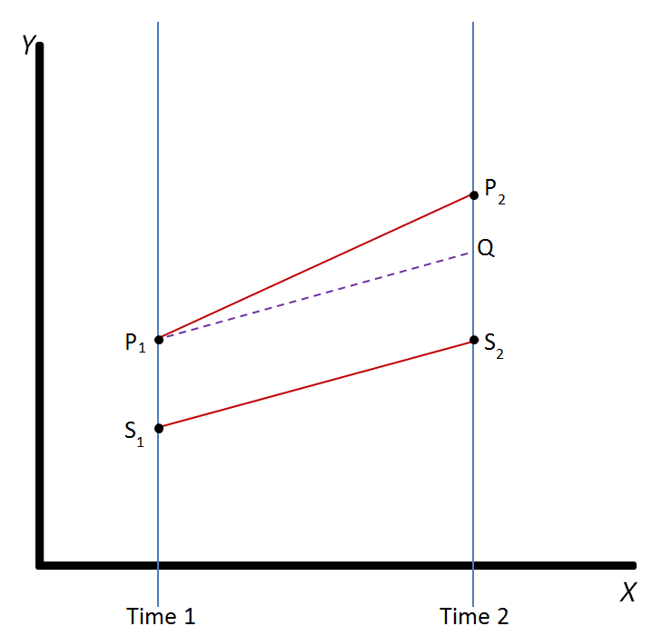 This illustration was created to help explain the difference in differences statistical method.